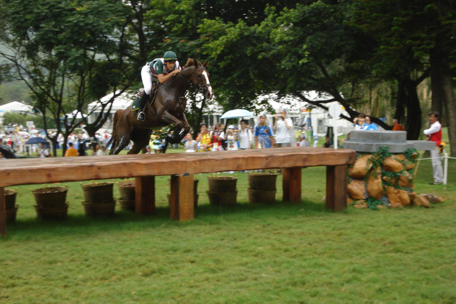 Beijing 2008 Olympic Game - Equestrian Event - Cross-Country Test of the Eventing Competition, held on The Olympic Equestrian Venue (Beas River) on 2008.8.13